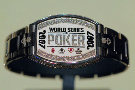 wsop07 bracelet